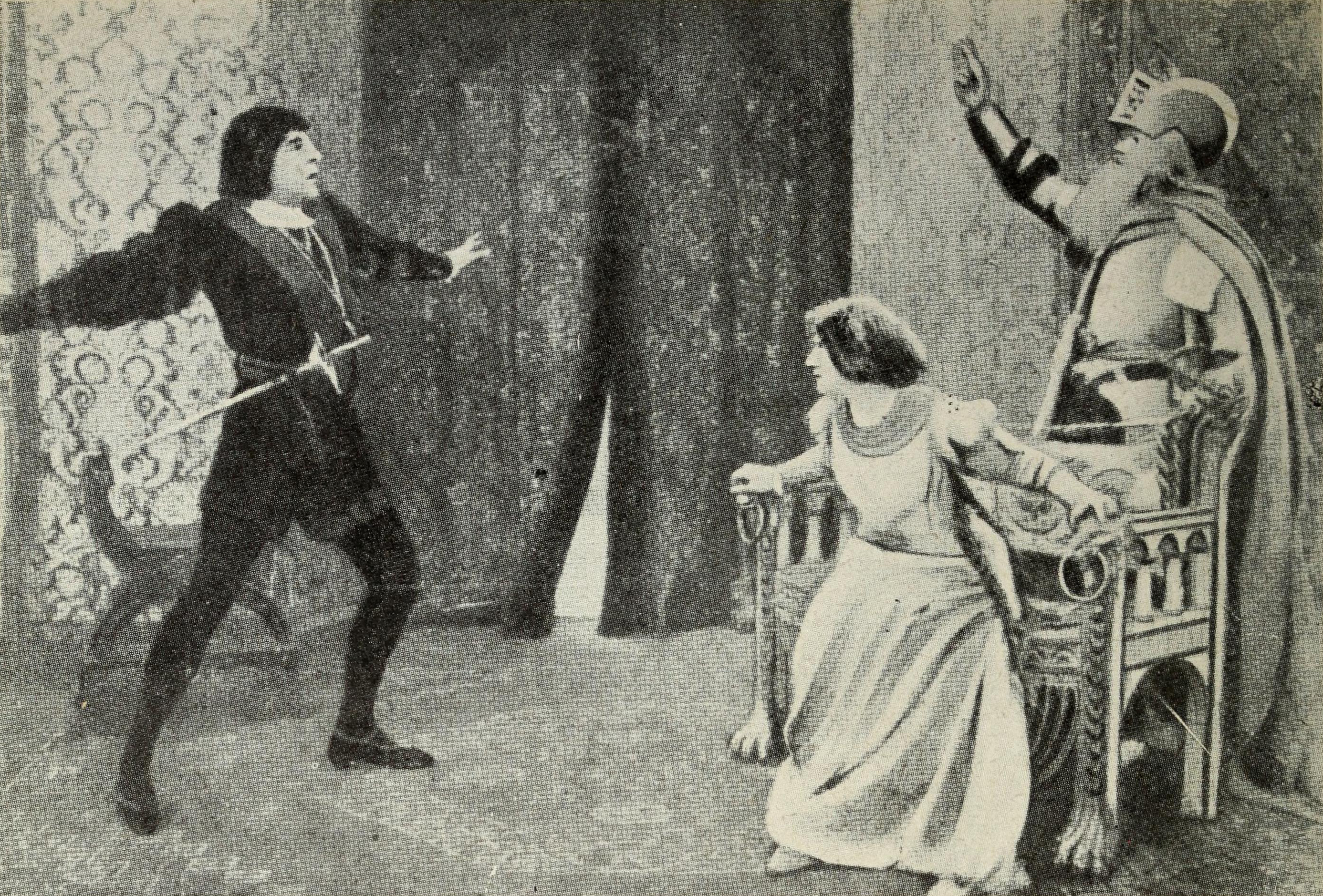 Filmstill from the French silent film. Left: Jacques Grétillat as Hamlet ; right, Geneviève Colonna-Romano as Gertrude.